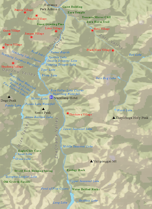 Map of Jiuzhaigou valleys and scenic area in Sichuan, China